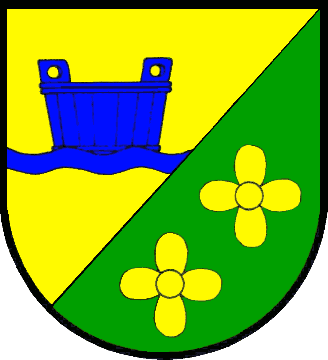 Coat of arms of the municipality Loit in Schleswig-Holstein, Germany.